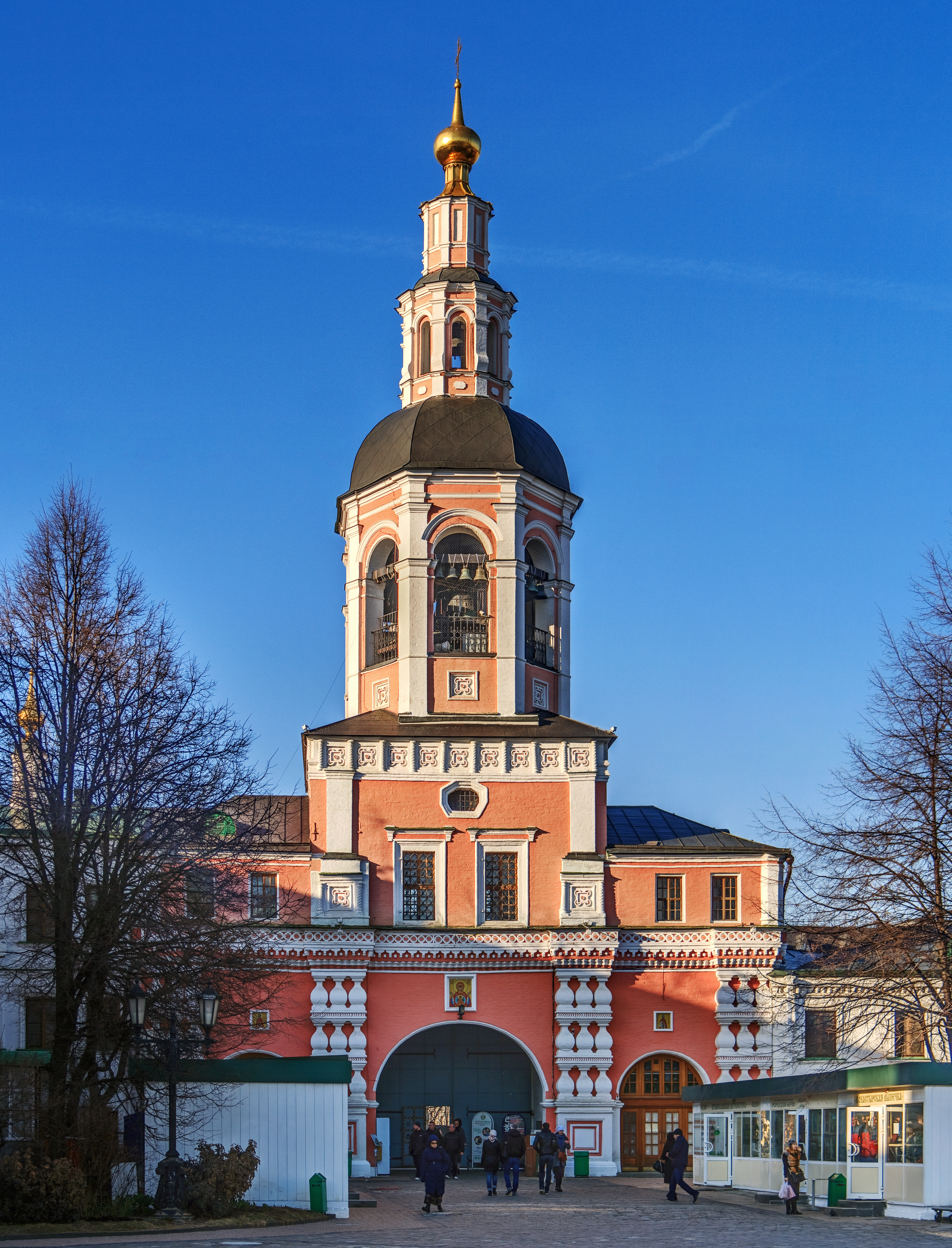 Gate church of Danilov Monastery, Moscow, Russia